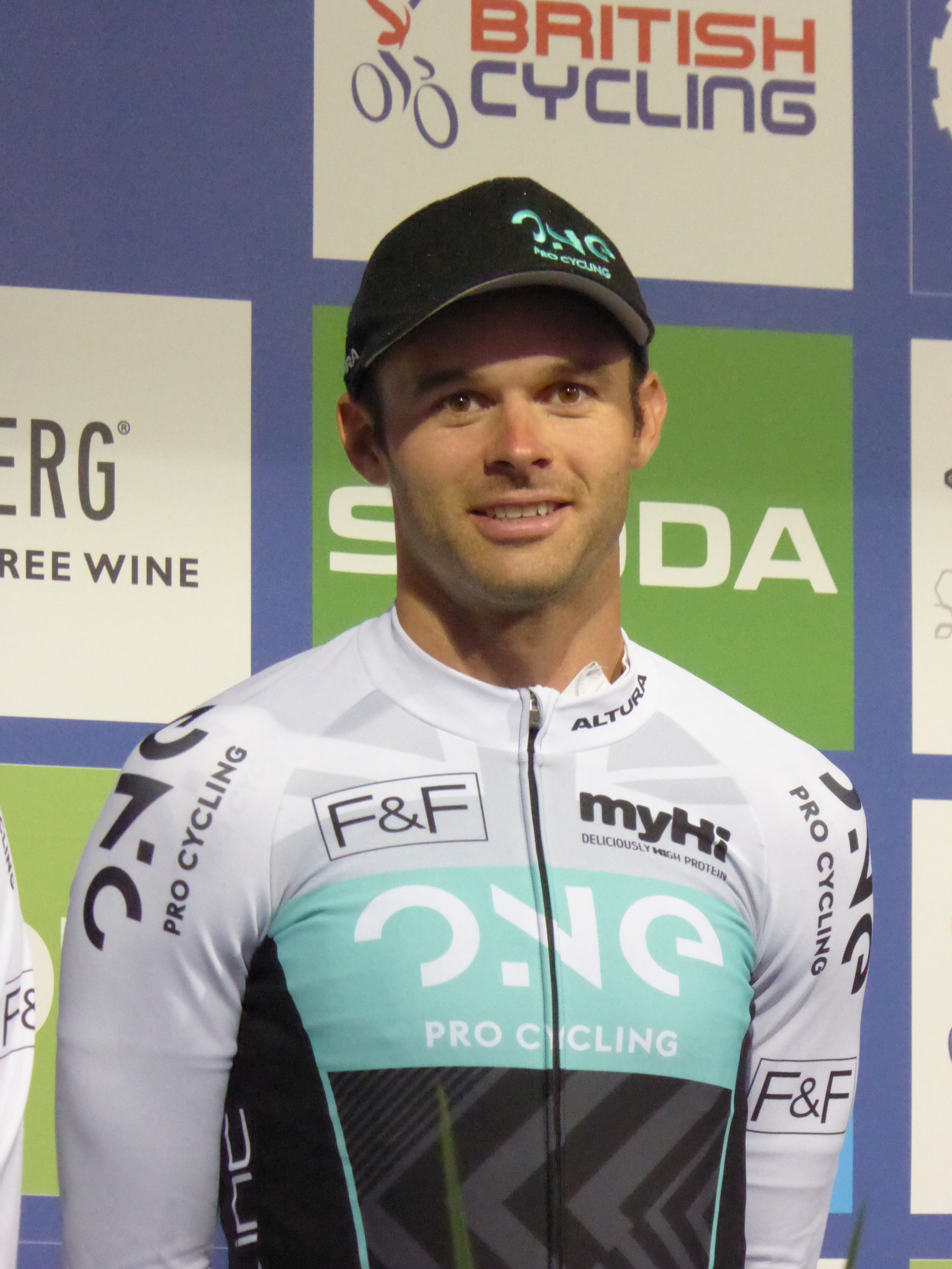 Steele Von Hoff (ONE Pro Cycling), pictured at the 2016 Tour of Britain team presentation in Glasgow on 3 September 2016.